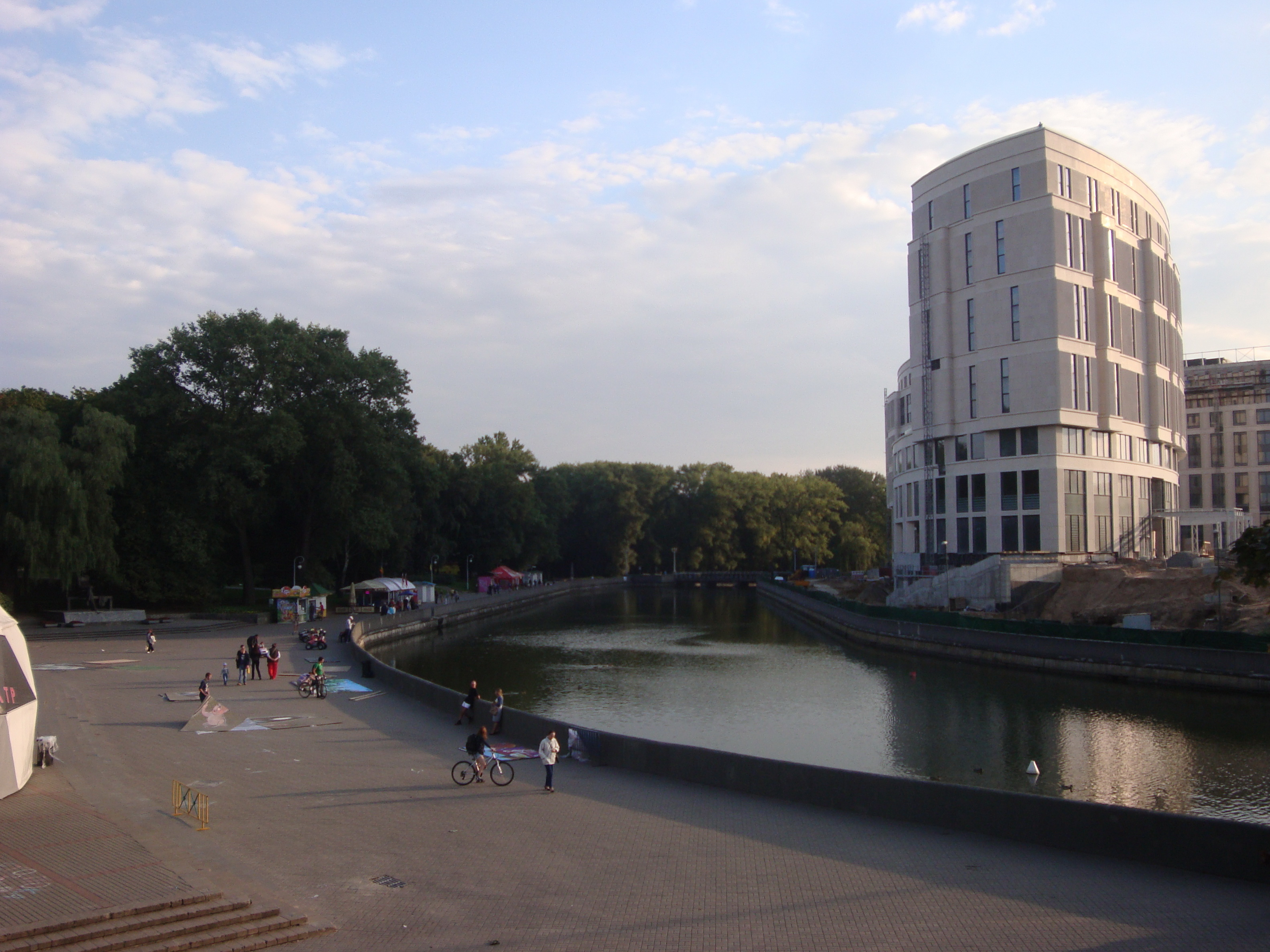 Svisloch river in the center of Minsk city near Central Children's Park, 2014 AD